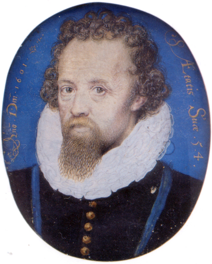 Portrait of George Carey, 2nd Baron Hunsdon (1547-1603)